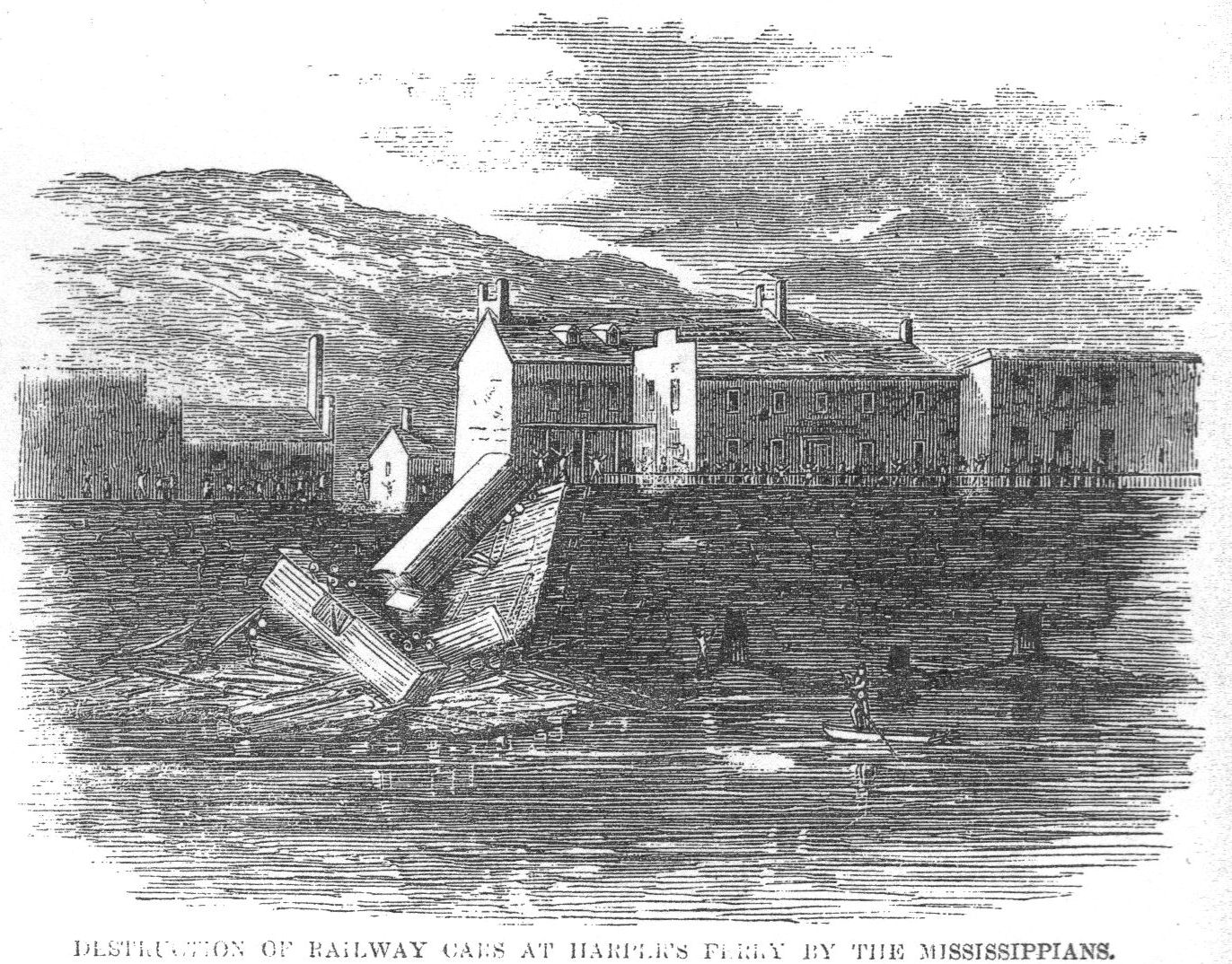 Harper's Weekly woodcut illustration, July 20, 1861